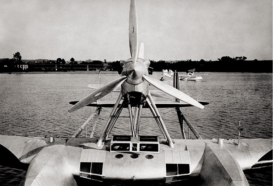 Savoia Marchetti S.55 A prototipo, equipaggiato con motori Fiat A12 da 300 Hp.